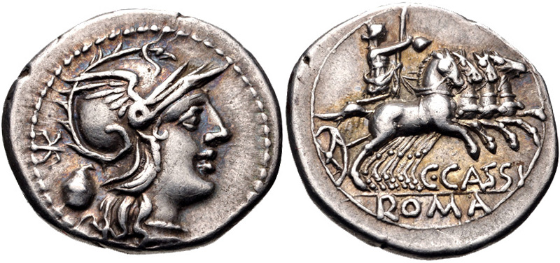 C. Cassius. 126 BC. AR Denarius (20mm, 3.99 g, 5h). Rome mint. Helmeted head of Roma right; behind, mark of value above voting urn / Libertas driving galloping quadriga right, holding reins, rod, and pileus. Crawford 266/1; Sydenham 502; Cassia 1. Good VF, lightly toned.